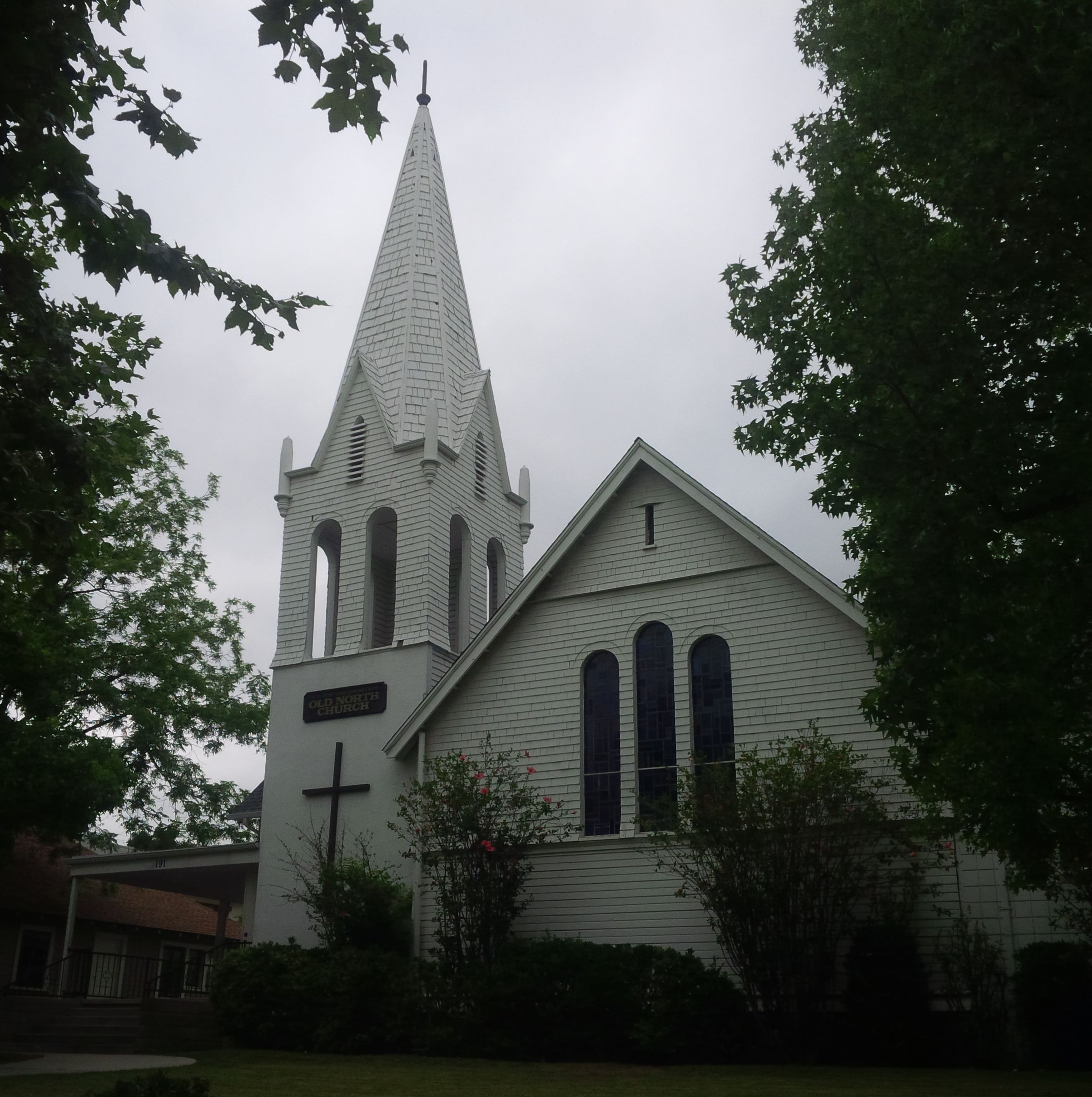 Old North Church Sierra Madre, California, Built 1890 Other information listed on Sierra Madre's Designated Historical Properties List.